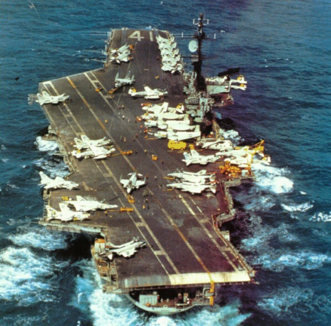 The U.S. Navy aircraft carrier USS Midway (CVA-41) in the Pacific Ocean, 30 November 1974. Midway, with assigned Attack Carrier Air Wing 5 (CVW-5), was deployed to the Western Pacific from 18 October to 20 December 1974.